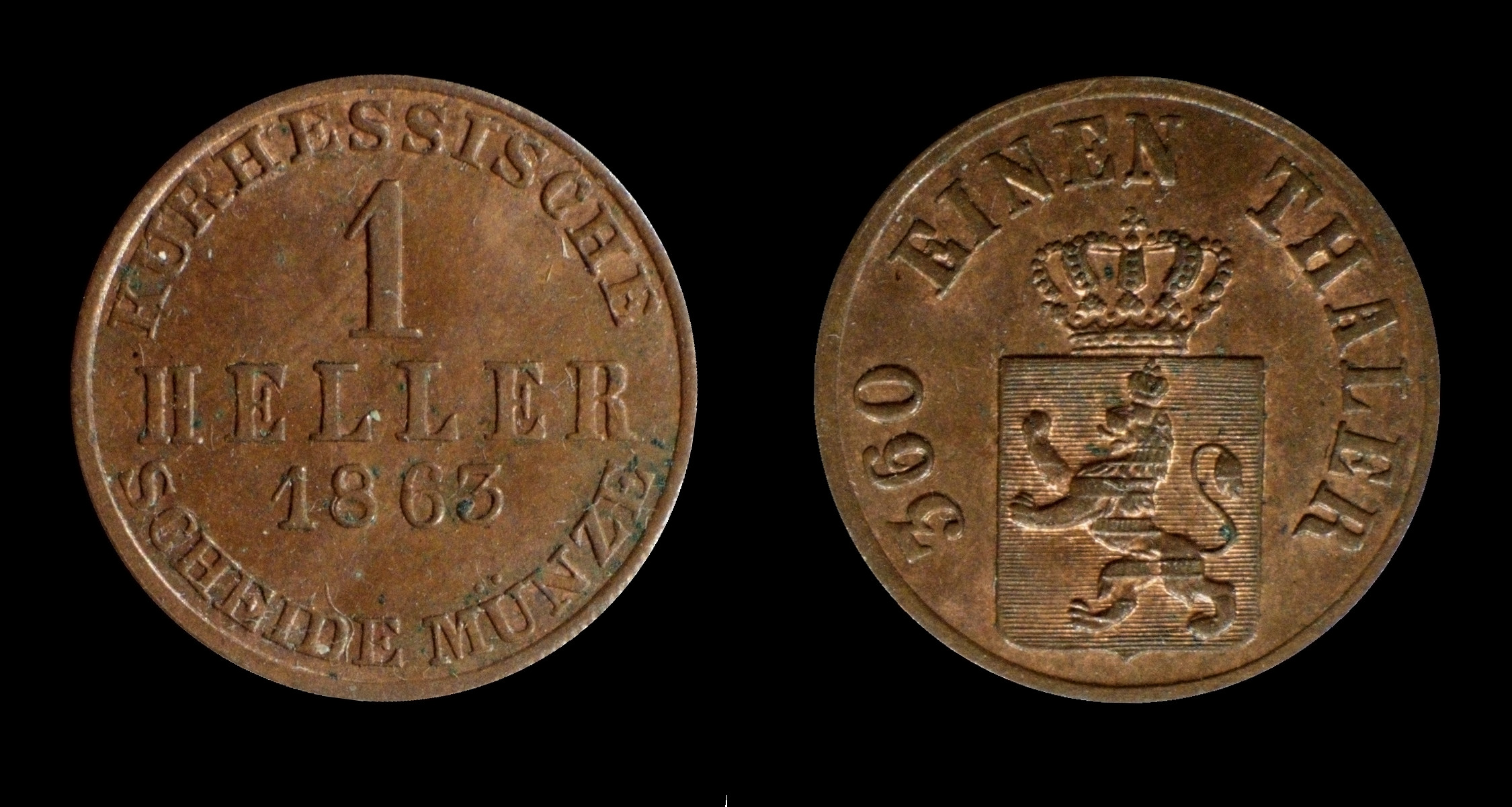 Electorate of Hesse, Friedrich Wilhelm I., 1 Heller 1863. Diameter 18 mm.